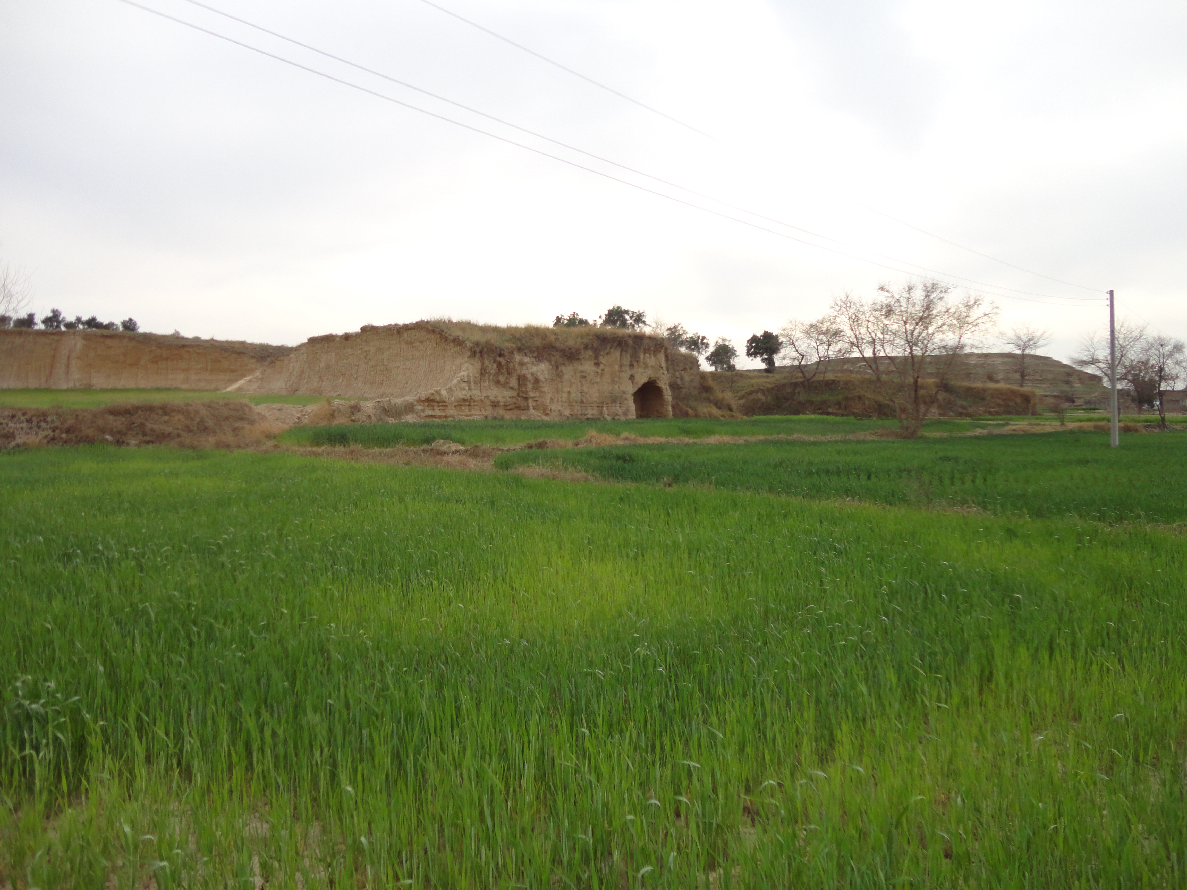 a village near Attock